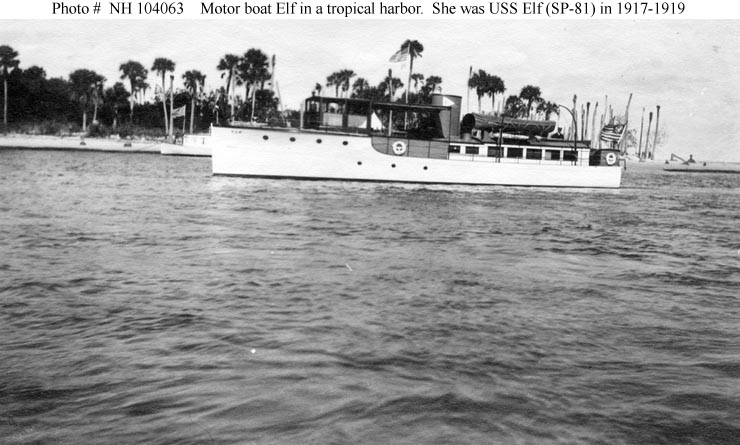 Motorboat Elf in a tropical harbor soon after completion, prior to her service as United States Navy patrol boat USS Elf (SP-81)